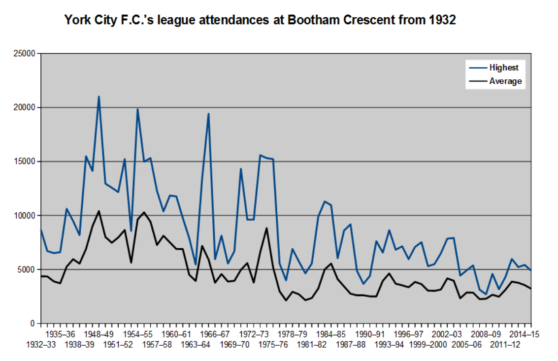 A graph of York City F.C.'s league attendances at Bootham Crescent, York from 1932 Highest attendances for the 1932–33 to 2007–08 seasons: Batters, David (2008) York City: The Complete Record, Derby: Breedon Books, pp. 258–410 ISBN: 978-1-85983-633-0. Highest attendance for the 2008–09 season: (2009) Non-League Club Directory 2010, Tony Williams Publications, p. 162 ISBN: 9-781869-833664. Highest attendance for the 2009–10 season: (2010) Non-League Club Directory 2011, Tony Williams Publications, p. 160 ISBN: 9-781869-833688. Highest attendance for the 2010–11 season: (2011) Non-League Club Directory 2012, Tony Williams Publications, p. 156 ISBN: 9-781869-833701. Highest attendance for the 2011–12 season: (2012) Non-League Club Directory 2013, Tony Williams Publications, p. 162 ISBN: 9-781869-833770. Highest attendances for the 2012–13 to 2015–16 seasons: Statistics: English League Two: 2012/2013. ESPN FC. Retrieved on 23 August 2016. Individual seasons accessed via dropdown menu. Average attendances for the 1932–33 to 2007–08 seasons: Batters York City: The Complete Record, pp. 235–237 Average attendance for the 2008–09 season: York City FC. European Football Statistics. Retrieved on 23 August 2016. Average attendance for the 2009–10 season: Flett, Dave (20 May 2010). "Review of York City's 2009/10 season". The Press. Retrieved on 23 August 2016. Average attendances for the 2010–11 to 2011–12 seasons: York City FC. European Football Statistics. Retrieved on 23 August 2016. Average attendance for the 2012–13 season: Statistics: English League Two: 2012/2013. ESPN FC. Retrieved on 18 August 2015. Average attendance for the 2013–14 season: Football League statistics. The Football League. Archived from the original on 31 May 2014. Average attendances for the 2014–15 to 2015–16 seasons: Statistics: English League Two: 2014/2015. ESPN FC. Retrieved on 23 August 2016. Individual seasons accessed via dropdown menu.